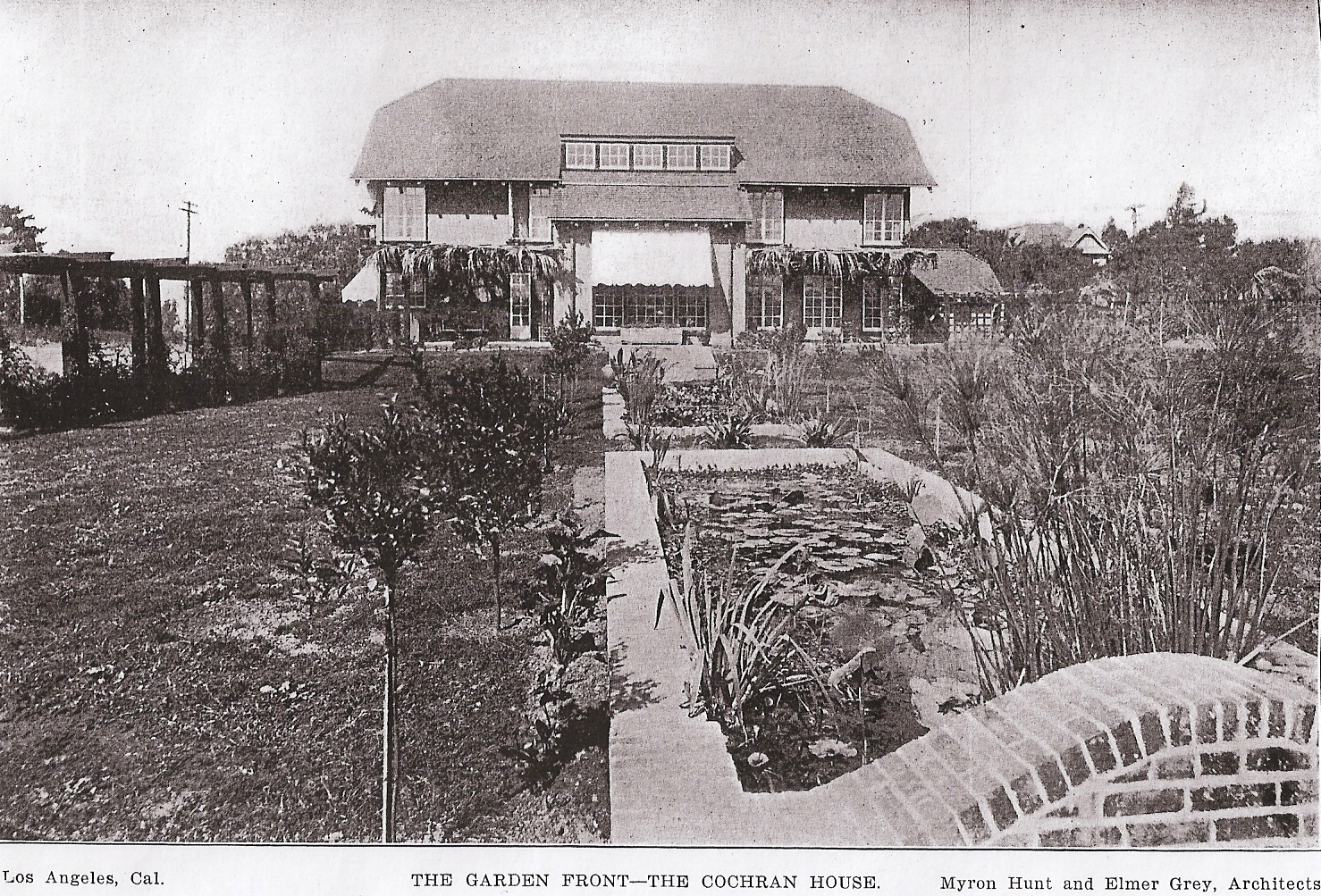 Cochran House, Los Angeles, California Source=Architectural Record, October 1906, p. 283 Published in the United States before 1923.